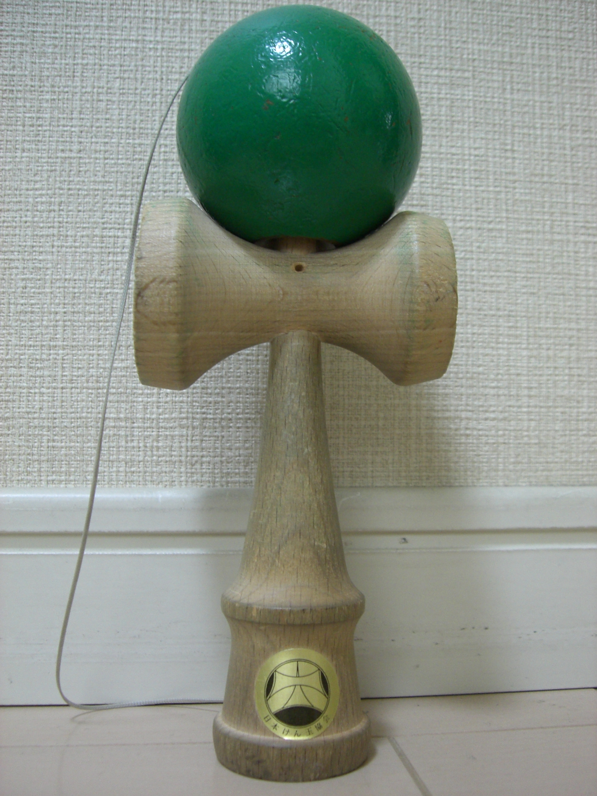 Kendama for game.Ball color is green.